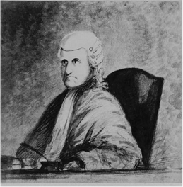 Drawing of David Williamson Robertson Ewart, Lord Balgray by Robert Scott Moncrieff